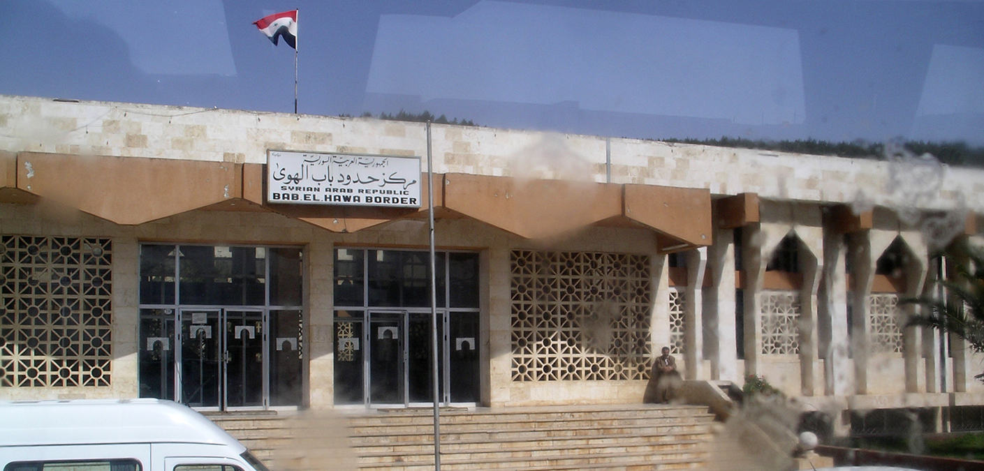 Bab El Hawa boarder crossing from Turkey to Syria in March 2006.